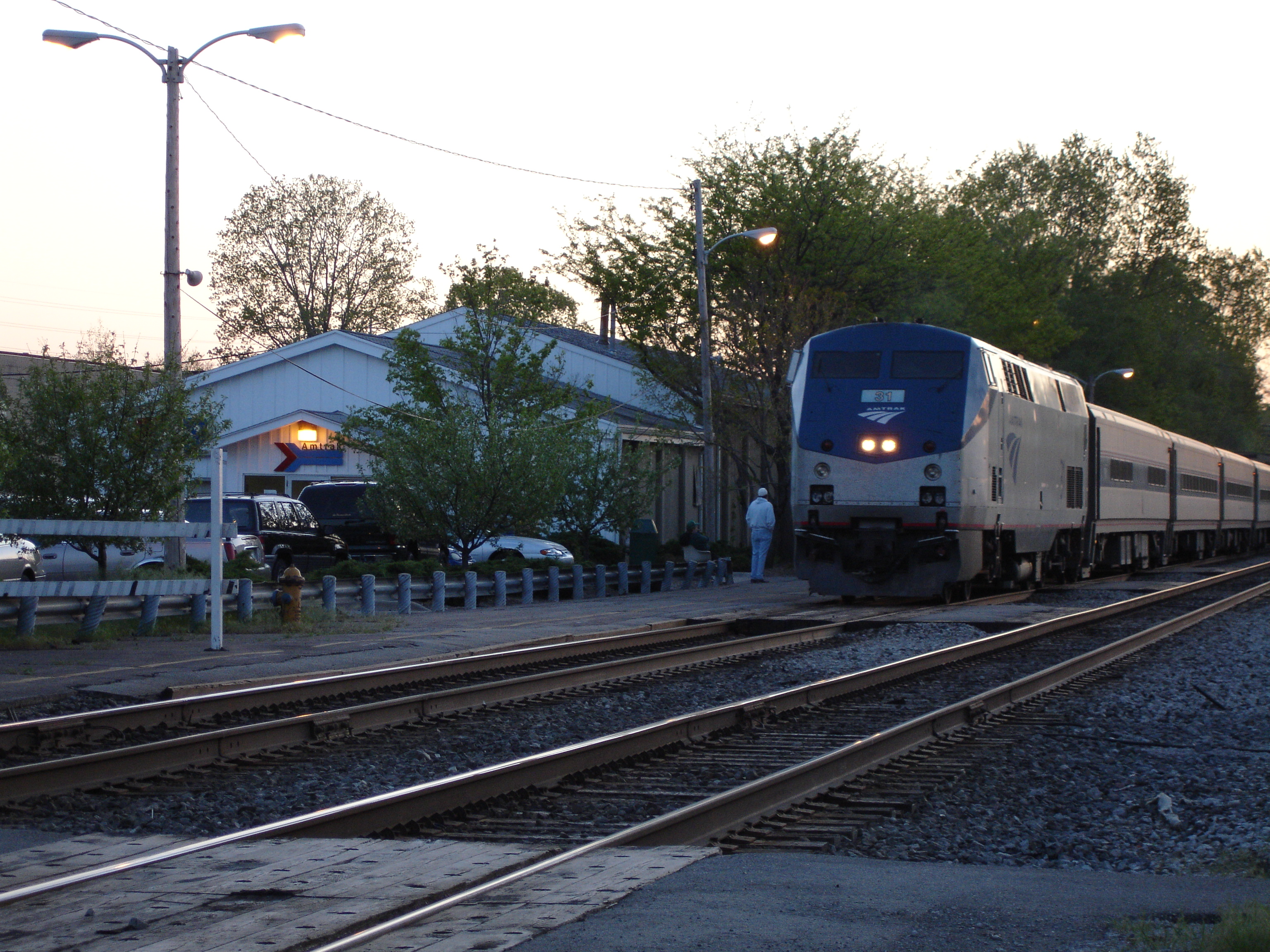 An Amtrak Blue Water train pulling into the East Lansing station.